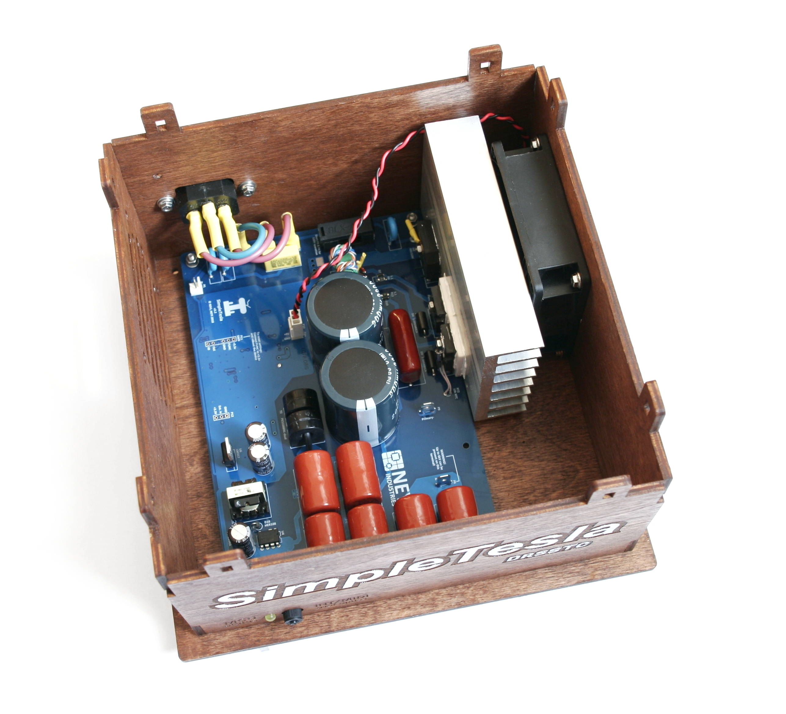 This picture shows how a modern DRSSTC Tesla coil looks on the inside. Single-board construction, all solid-state design.